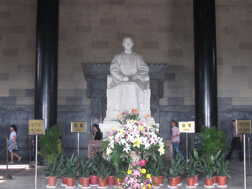 Sun Yat-sen statue